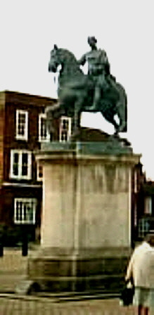 The statue of King William III marks the centre of Petersfield. Photo taken by publunch in September 2005.